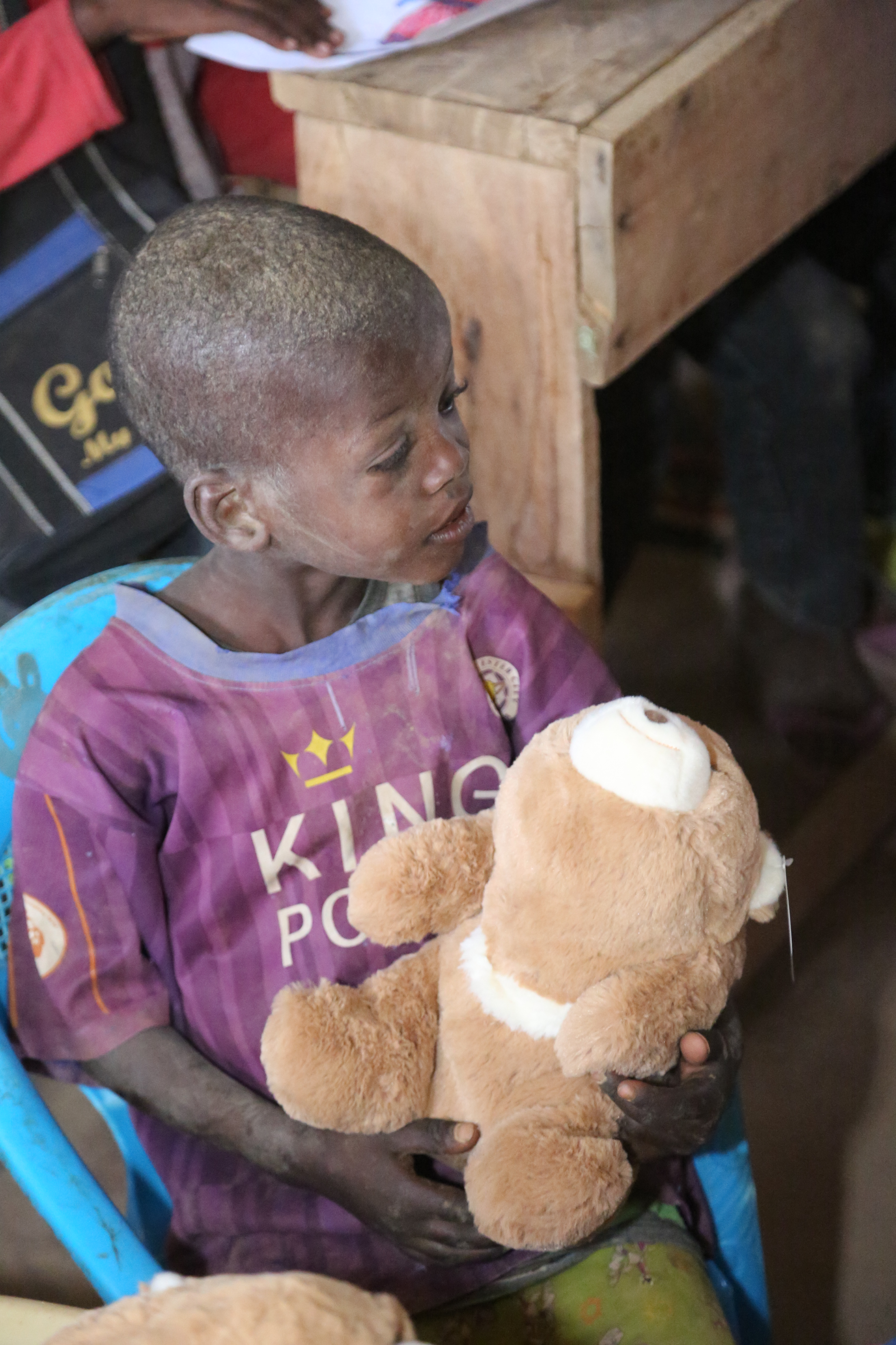 Benson was in a safe playing area in Daadab Refugee Camp, the 2nd largest refugee camp in the world. He had received the toy from Spin Master, a donor toy company. This is an image with the theme "Play" from: Kenya